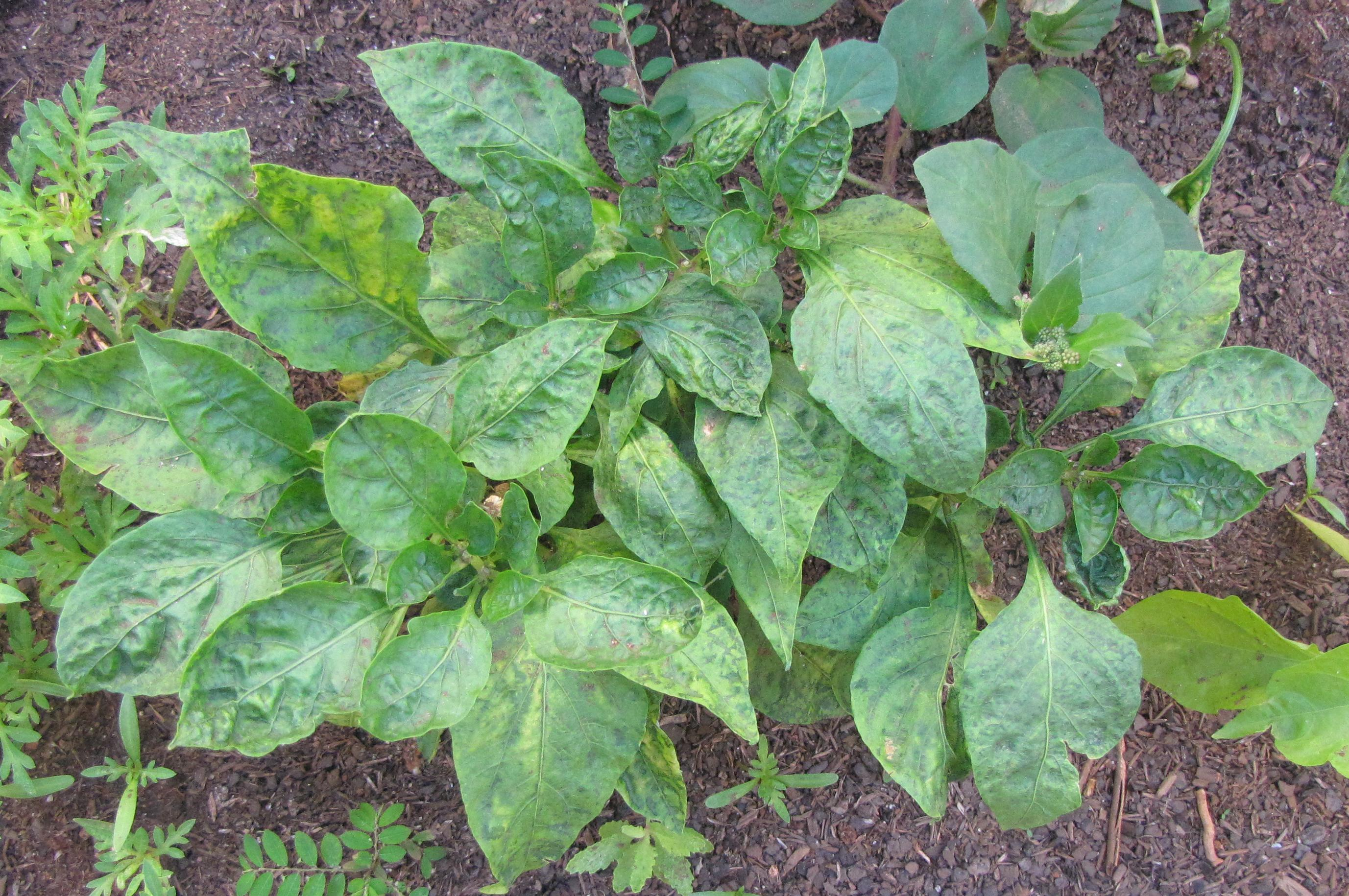 Pepper infected with Tomato spotted wilt virus. Plant of Pimiento L sweet pepper.